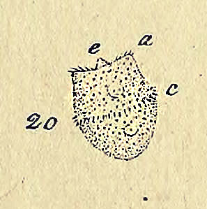 Vorticella nasuta as depicted in O. F. Muller's Animalcula Infusoria, 1786 (=Didinium nasutum